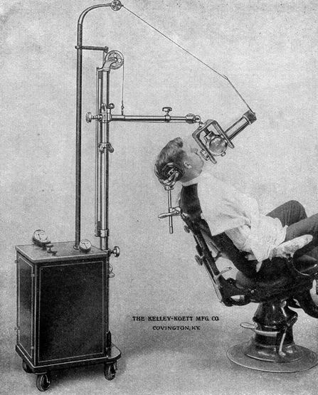 The K-K Dental and Bedside X-Ray Unit